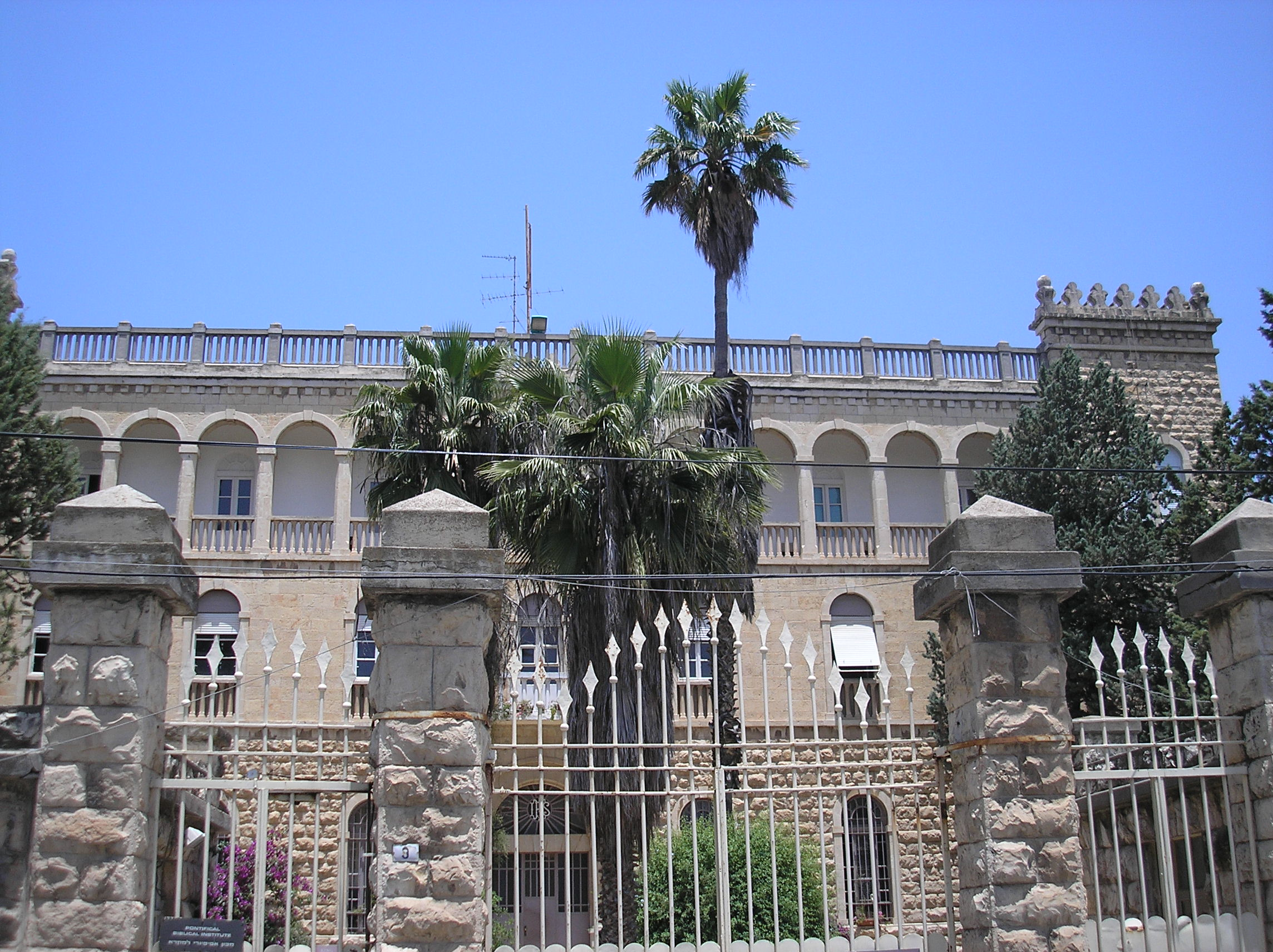 The Papal Bible Institute - front